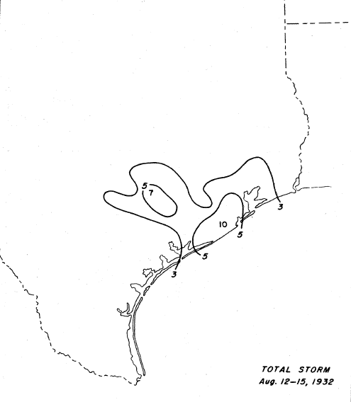 Rainfall totals from Hurricane Two of the 1932 Atlantic hurricane season.